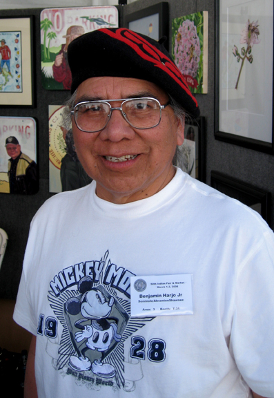 Benjamin Harjo, Jr, contemporary Shawnee-Seminole painter and printmaker from Oklahoma